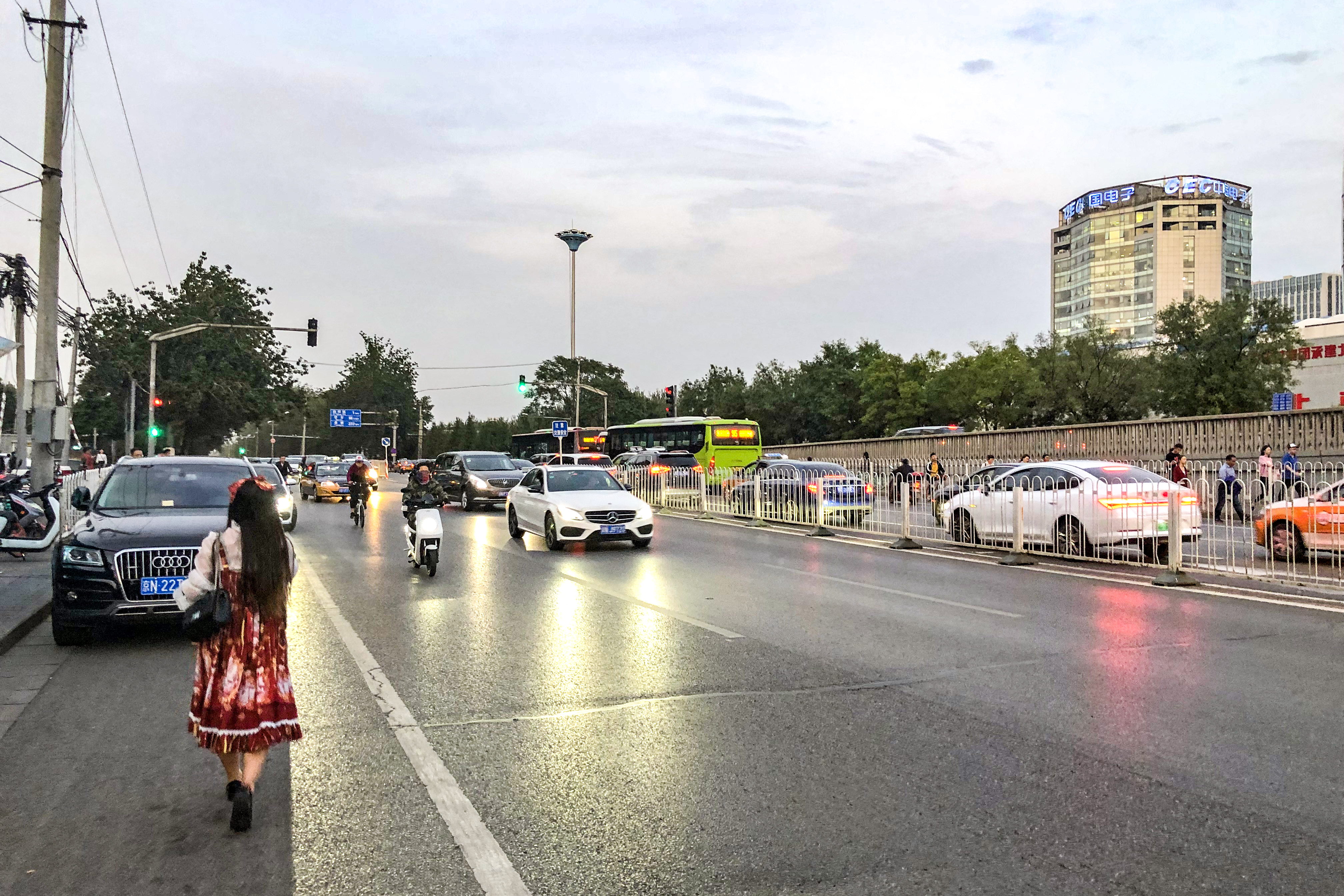 Start of G101 witnessed a lolita.